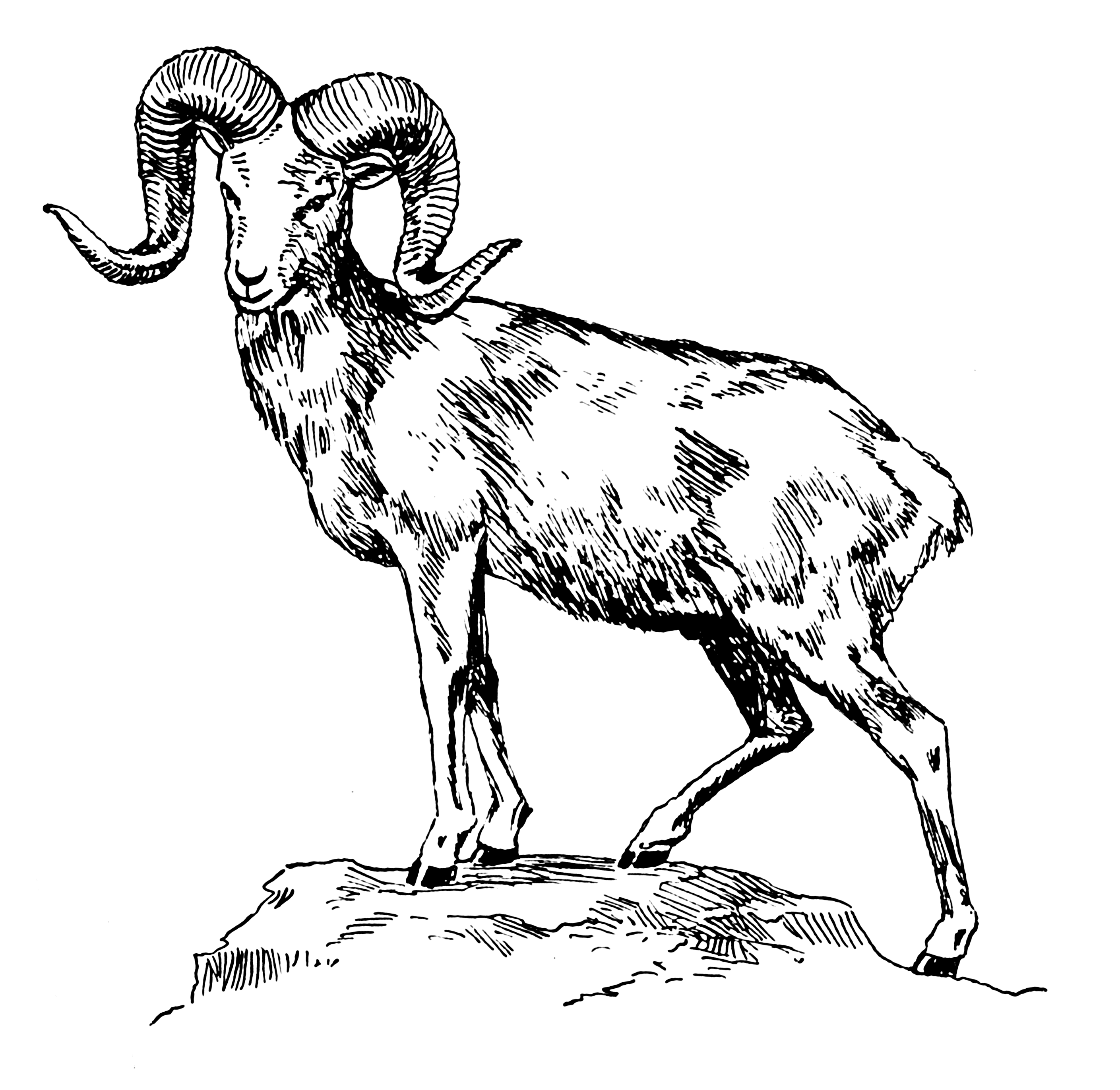 Line art drawing of an argali